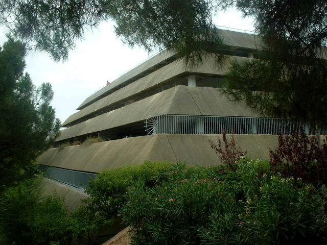 Car park in Arles, Bouches-du-Rhône, France.